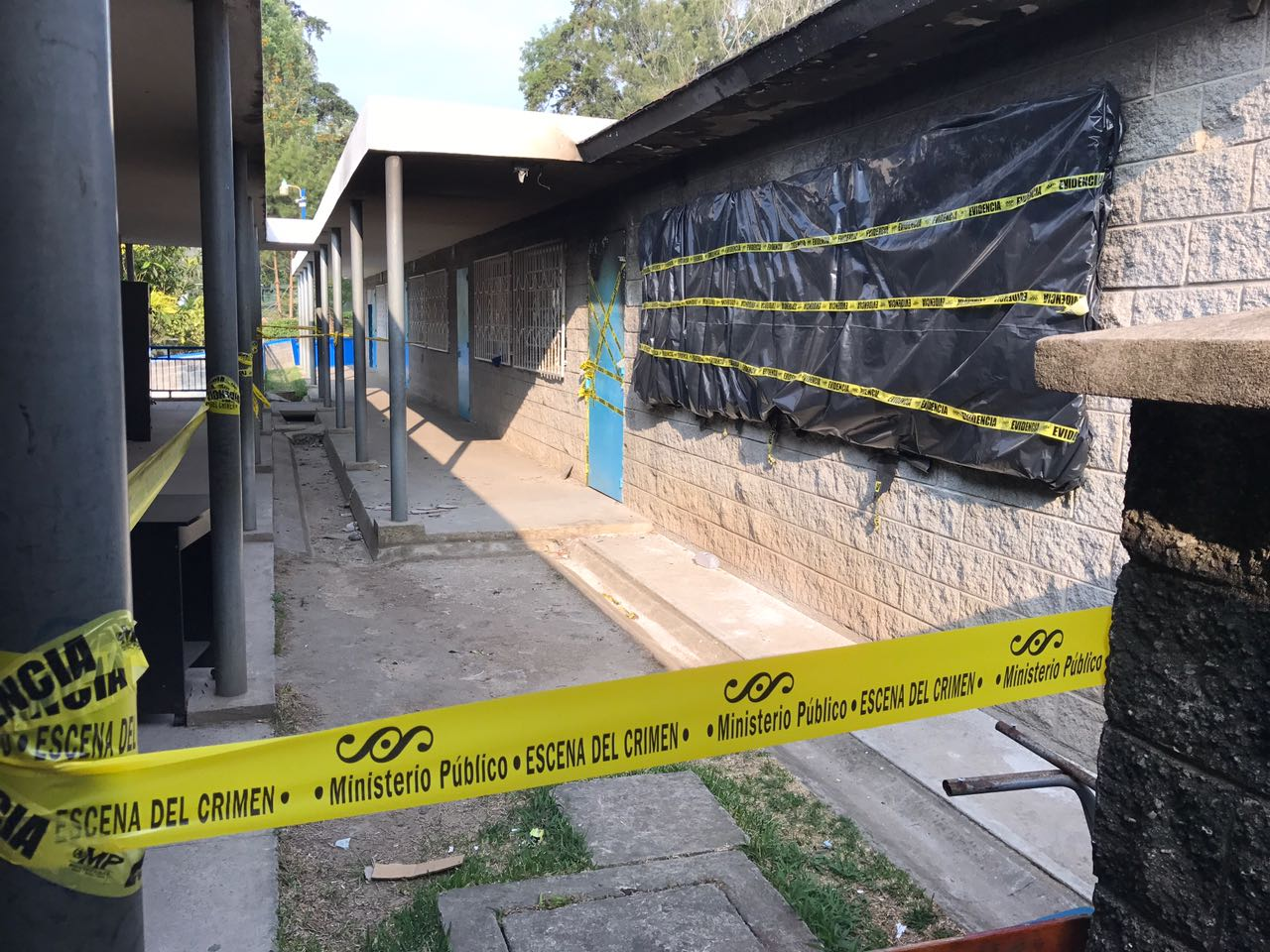 The Inter-American Commission on Human Rights (Comisión Interamericana de los Derechos Humanos) visits Guatemala following the fire at Hogar Seguro Virgen de la Asunción in March 2017.